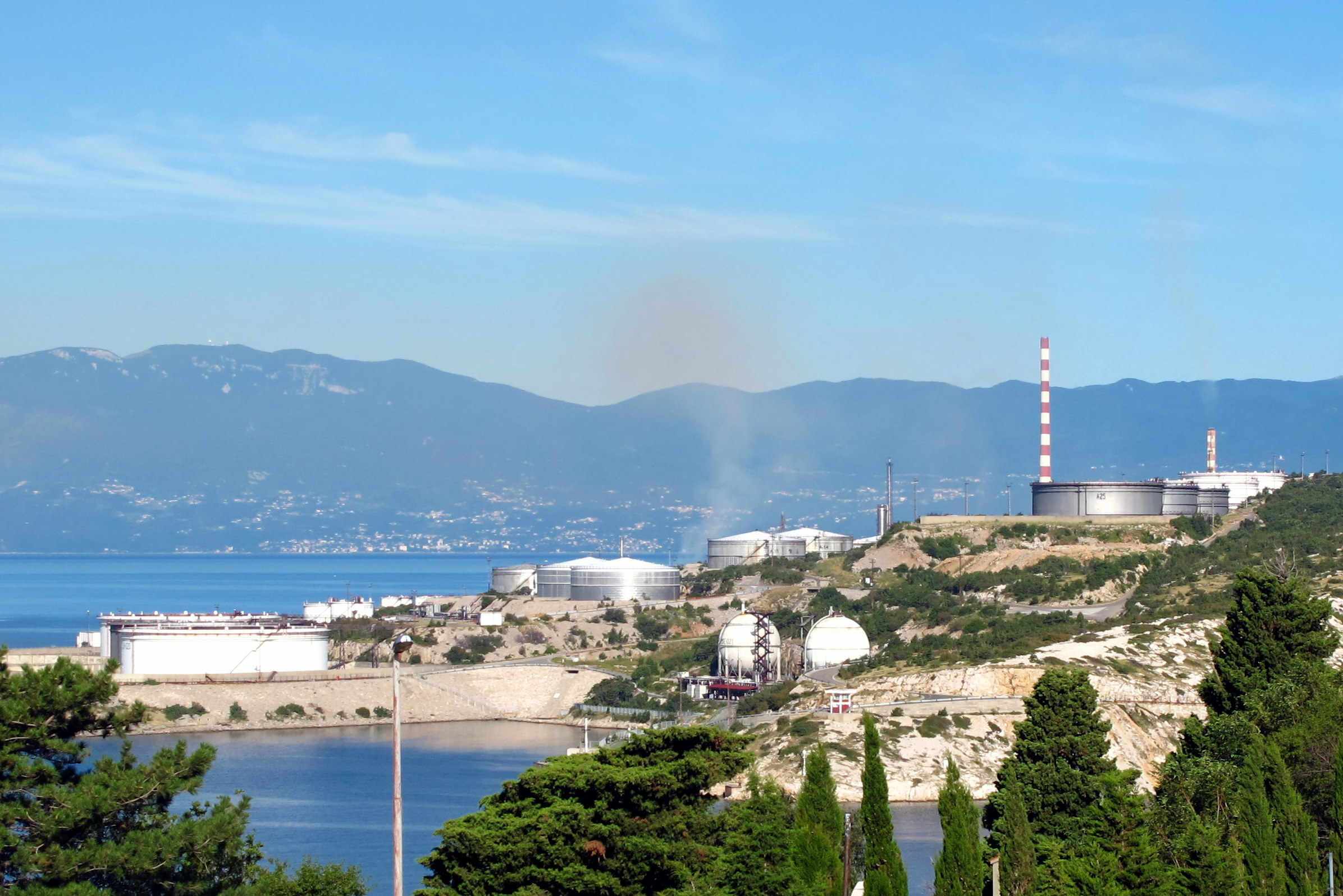 Entrance to the Bay of Bakar seen from Kraljevica Croatia / Adriatic Sea. In the background the grounds of the refinery Rijeka (INA).